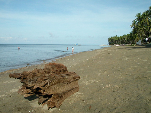 An early morning scene in San Andres